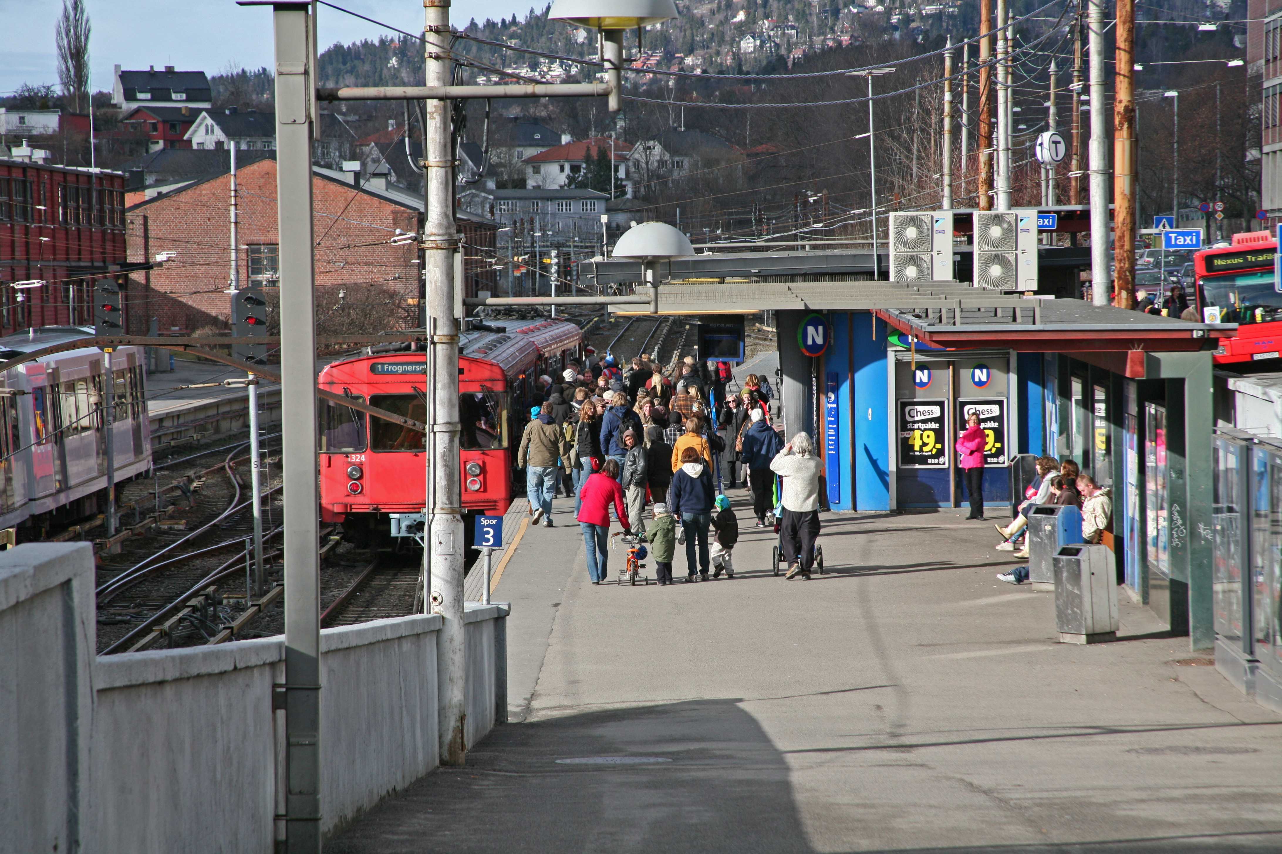 Picture of Majorstuen Station (Oslo - Norway)